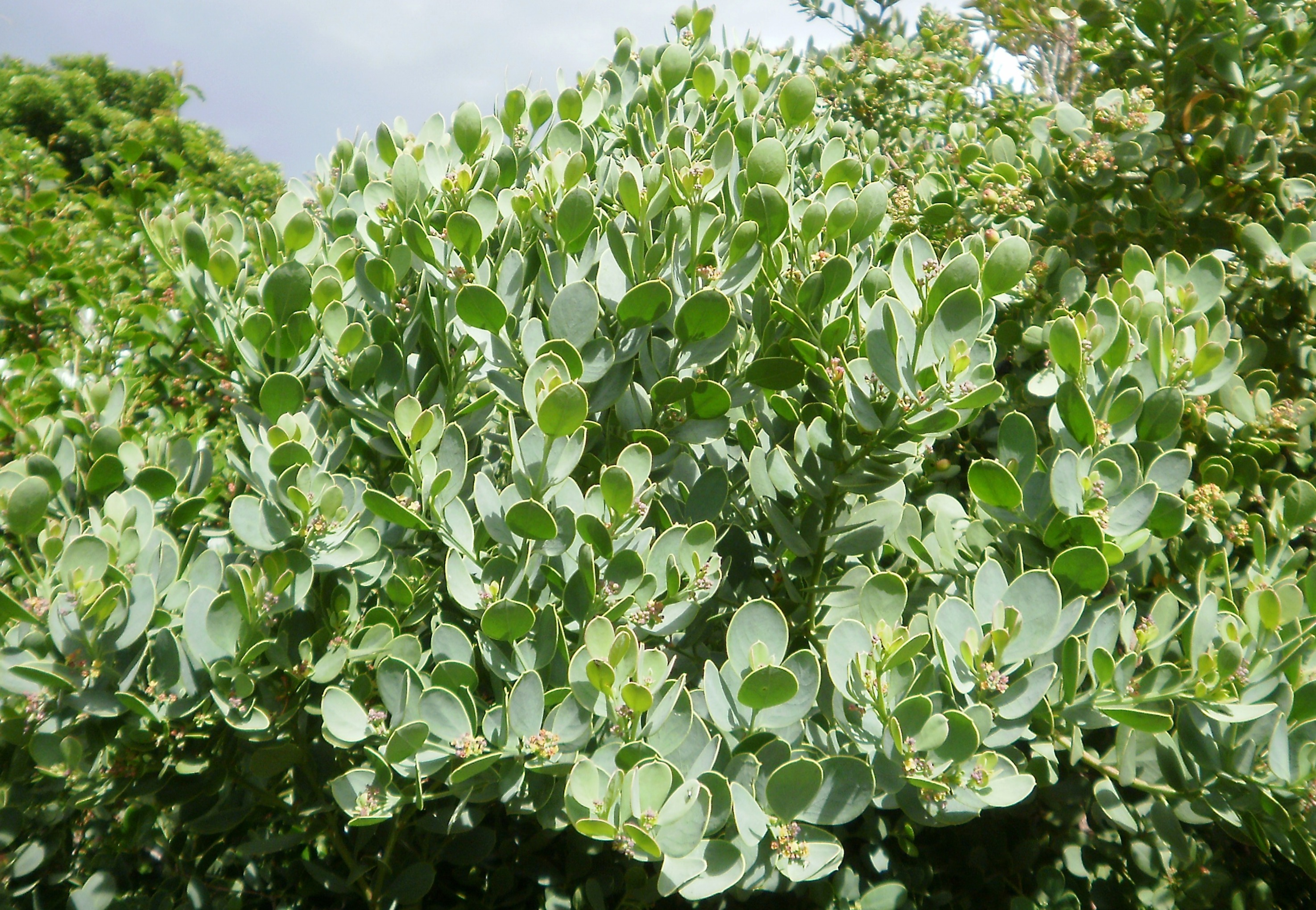 Osyris compressa bush. Western Cape. South Africa.